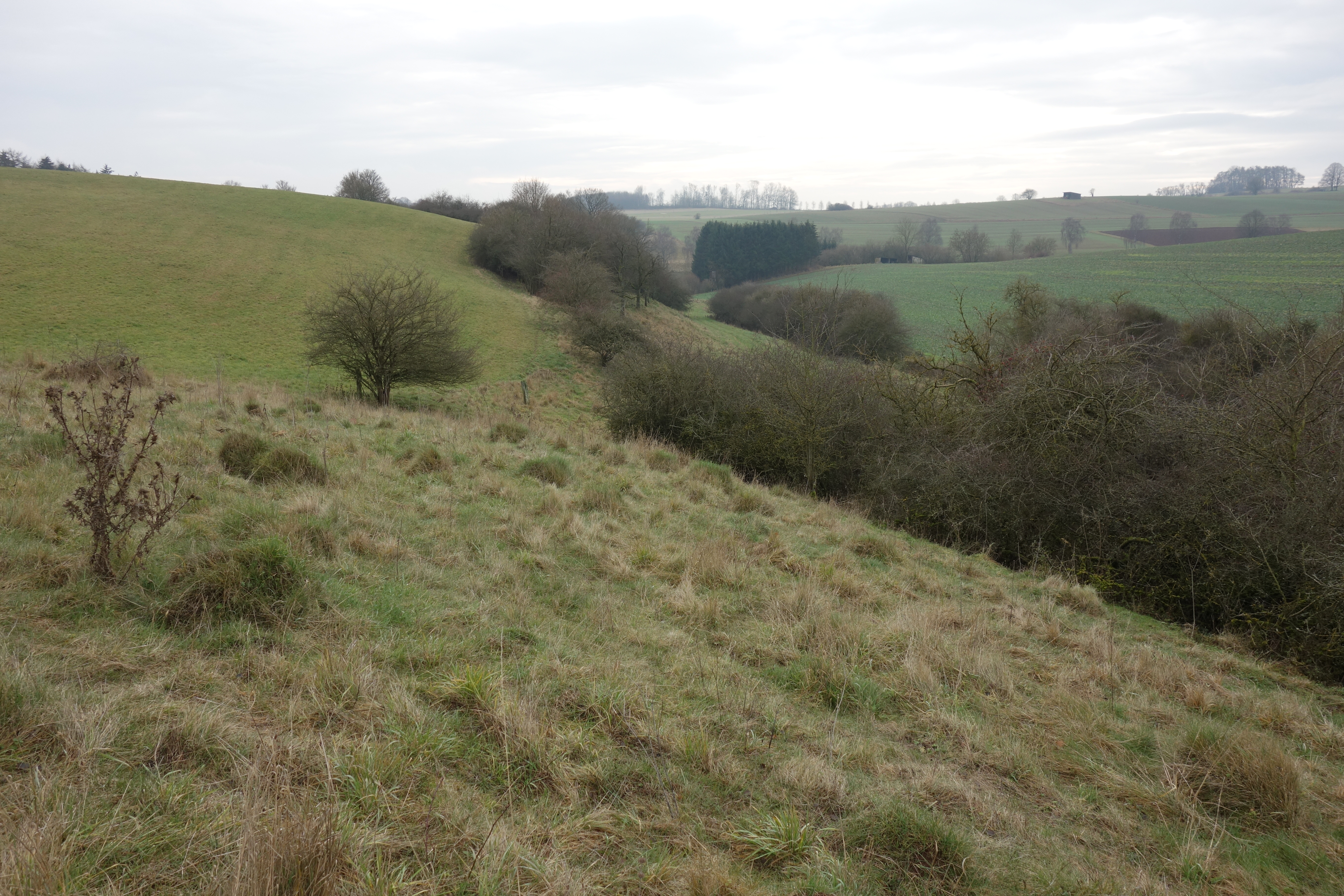 Naturschutzgebiet Dahlsberg (rechts der Kante mit Büschen) von Norden.